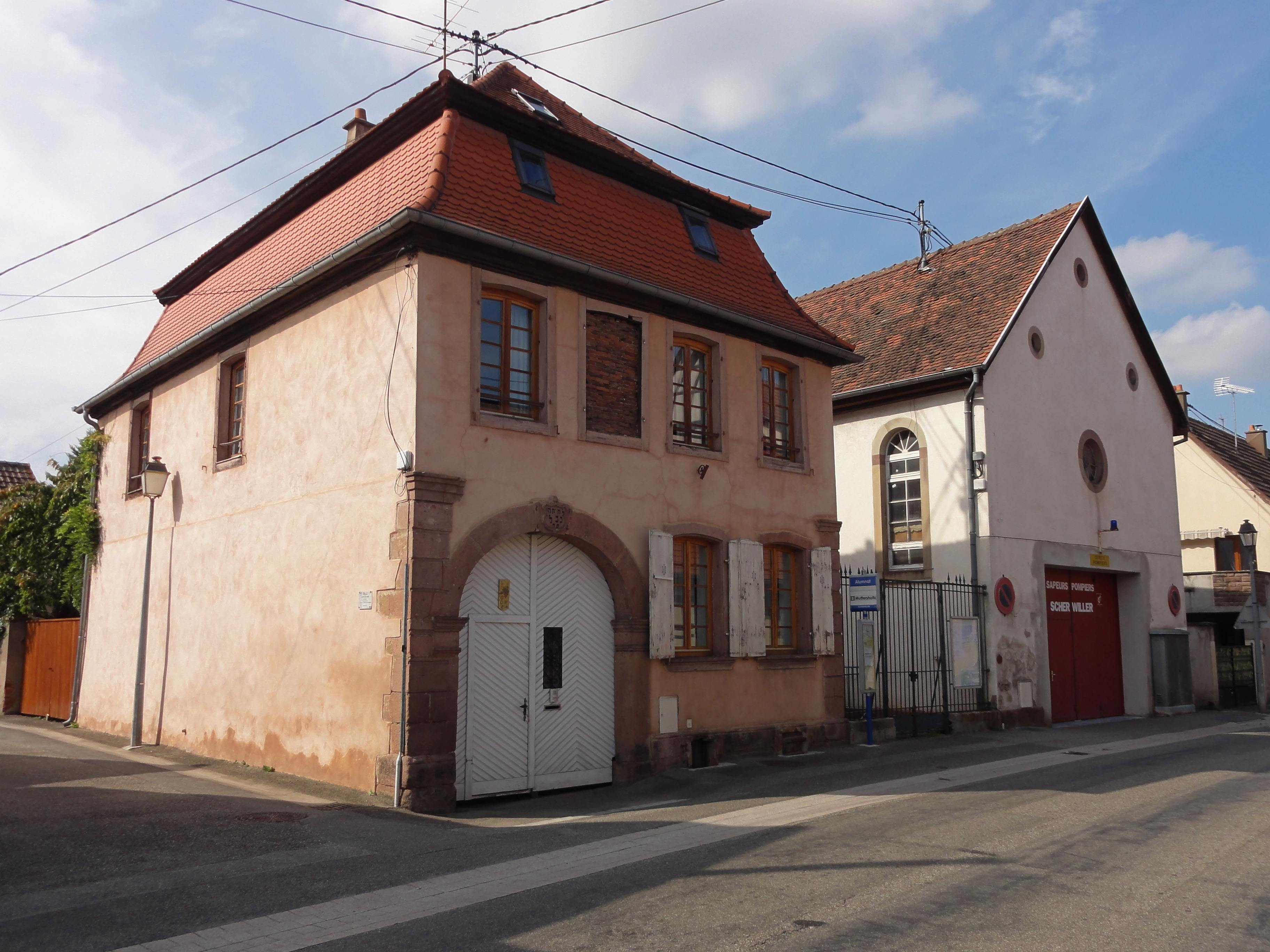 Alsace, Bas-Rhin, Scherwiller, Maison du Rabbin (XVIIIe), 8 rue du Giessen. It is indexed in the Base Mérimée, a database of architectural heritage maintained by the French Ministry of Culture, under the references PA00084971 and IA00124544 . Synagogue (1790-1861): It is indexed in the Base Mérimée, a database of architectural heritage maintained by the French Ministry of Culture, under the references PA00084974 and IA00124543 .